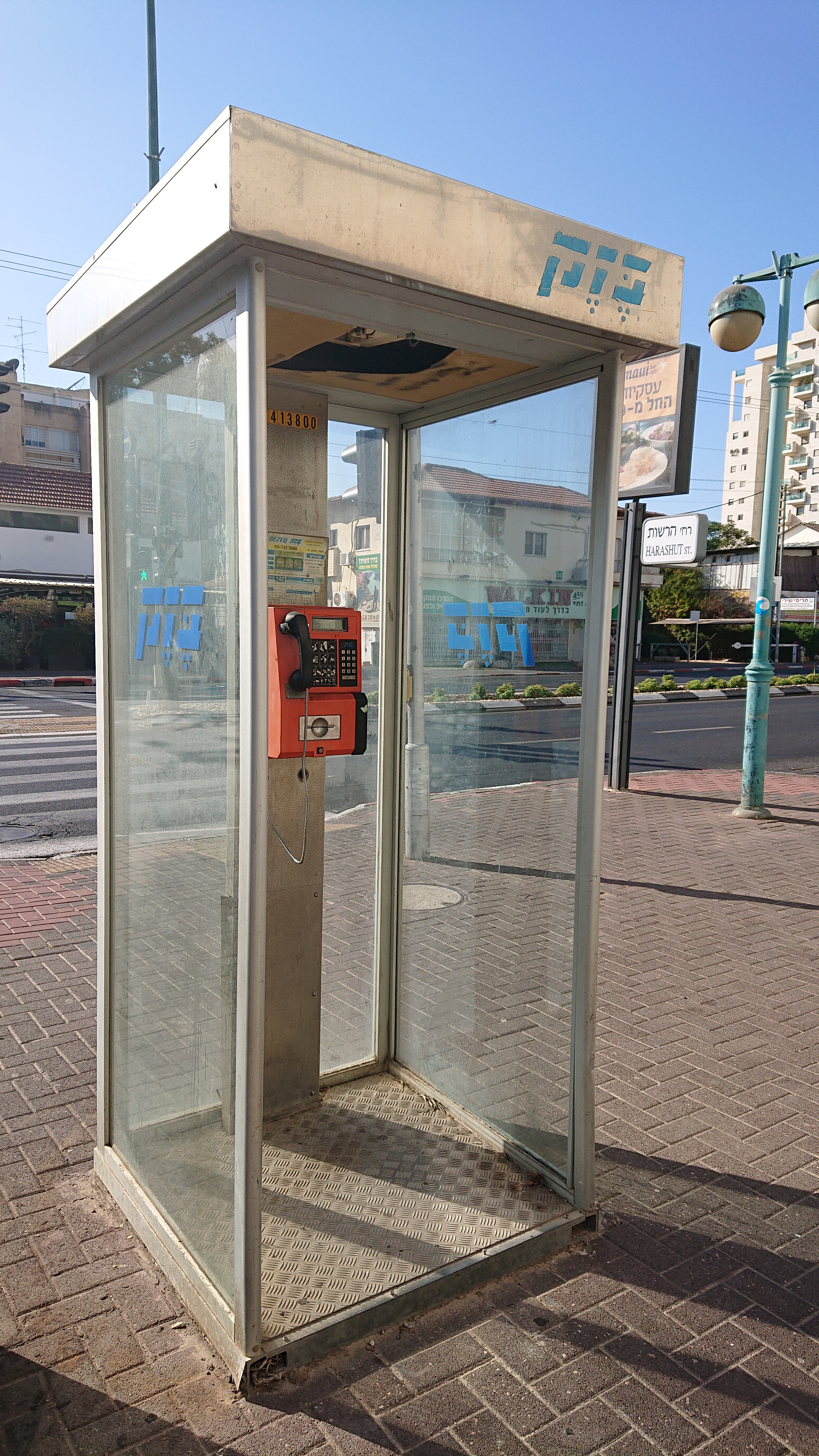 An old 90s-era Bezeq Telephone booth in Hod Hasharon, Israel.